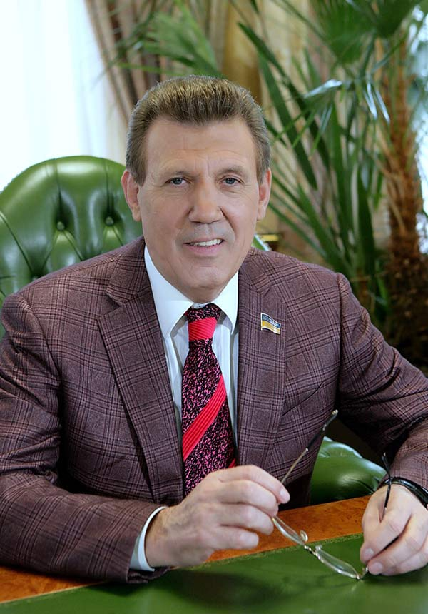 President of the National University Odesa Law Academy, Academician Serhii V. Kivalov